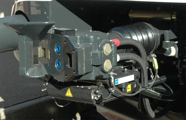 Automatic coupler of type FK-15-12, produced by Schwab Verkehrstechnik, Schaffhausen, Switzerland